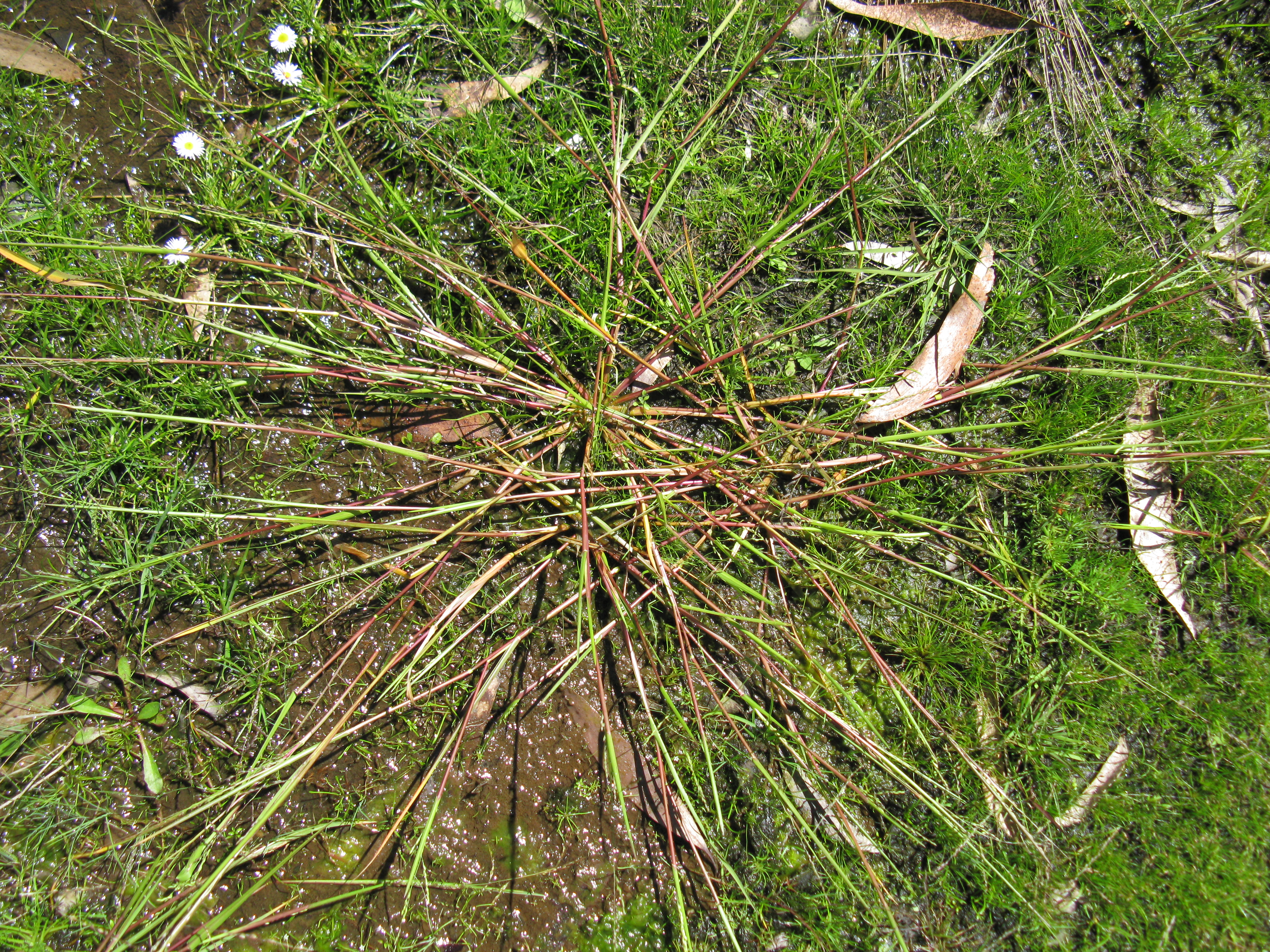 Introduced, warm-season, annual, mostly sprawling, hairless to sparsely hairy, tufted grass; to 70 cm tall and often purple tinged, especially near the base. A native of Africa, it is a weed of disturbed areas and cultivation. A minor weed of cropping. It is suspected of causing photosensitisation in sheep when abundant.